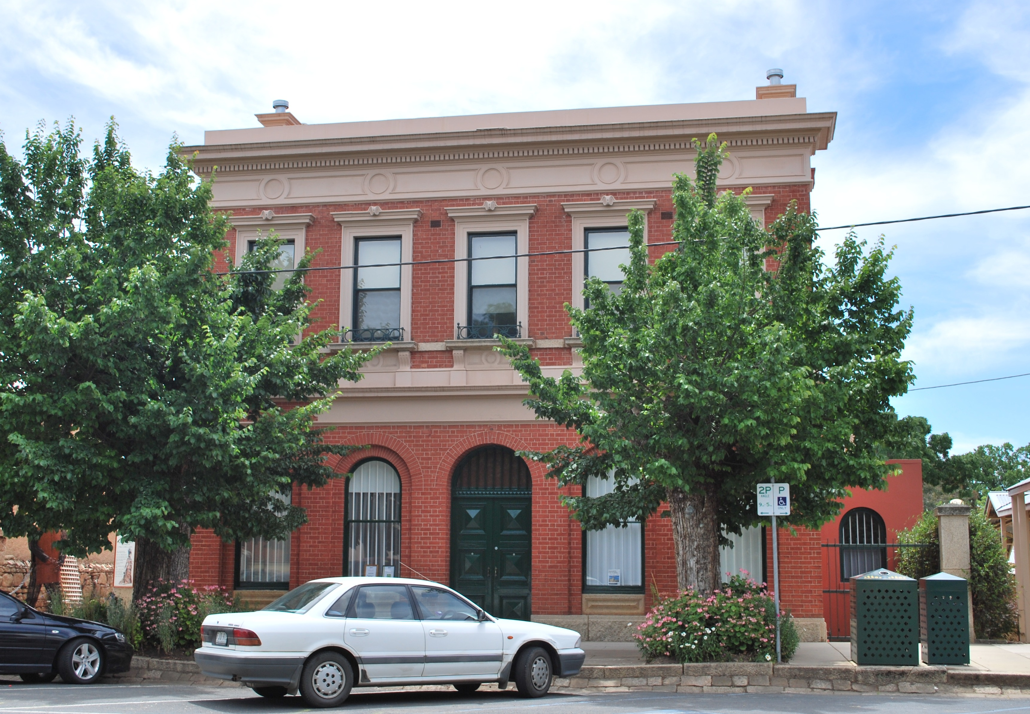 The former Oriental . Bank and Brigidine Convent at Beechworth, Victoria, now a bed and breakfast